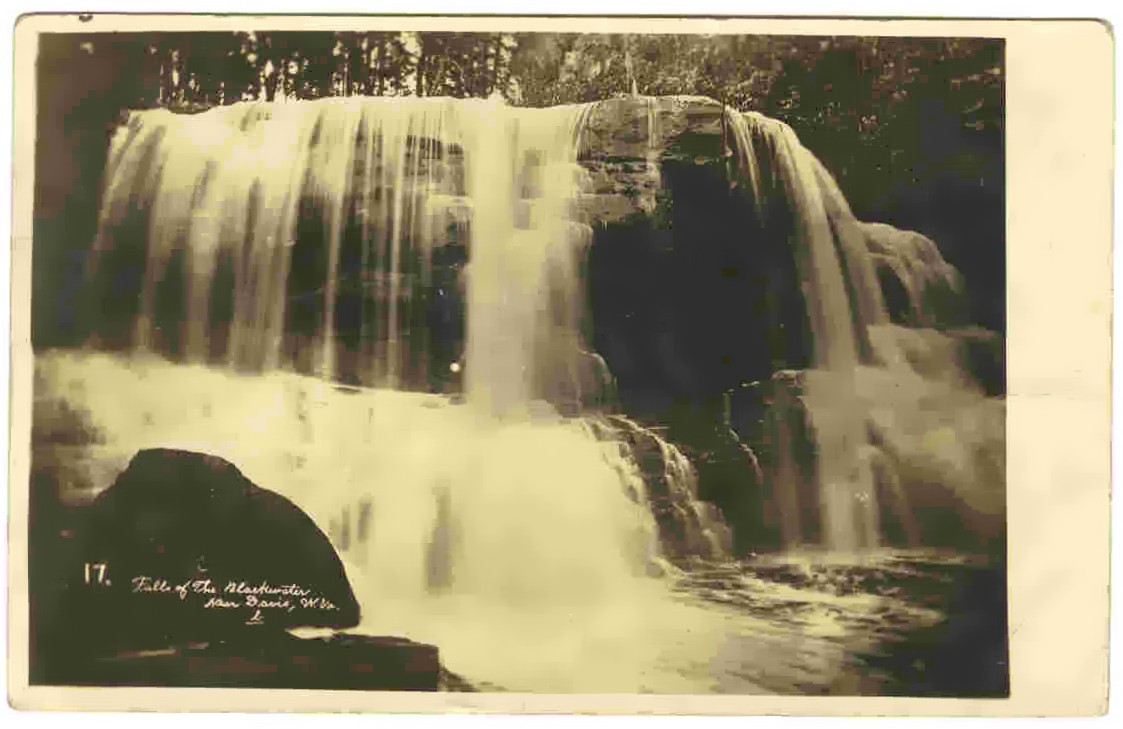 Blackwater Falls, West Virginia from a postcard, circa 1910